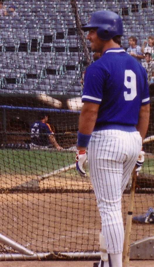 Damon Berryhill at Wrigley Field in 1988 16:44, 11 November 2007 . . Sacoo . . 526×912 (140 KB)